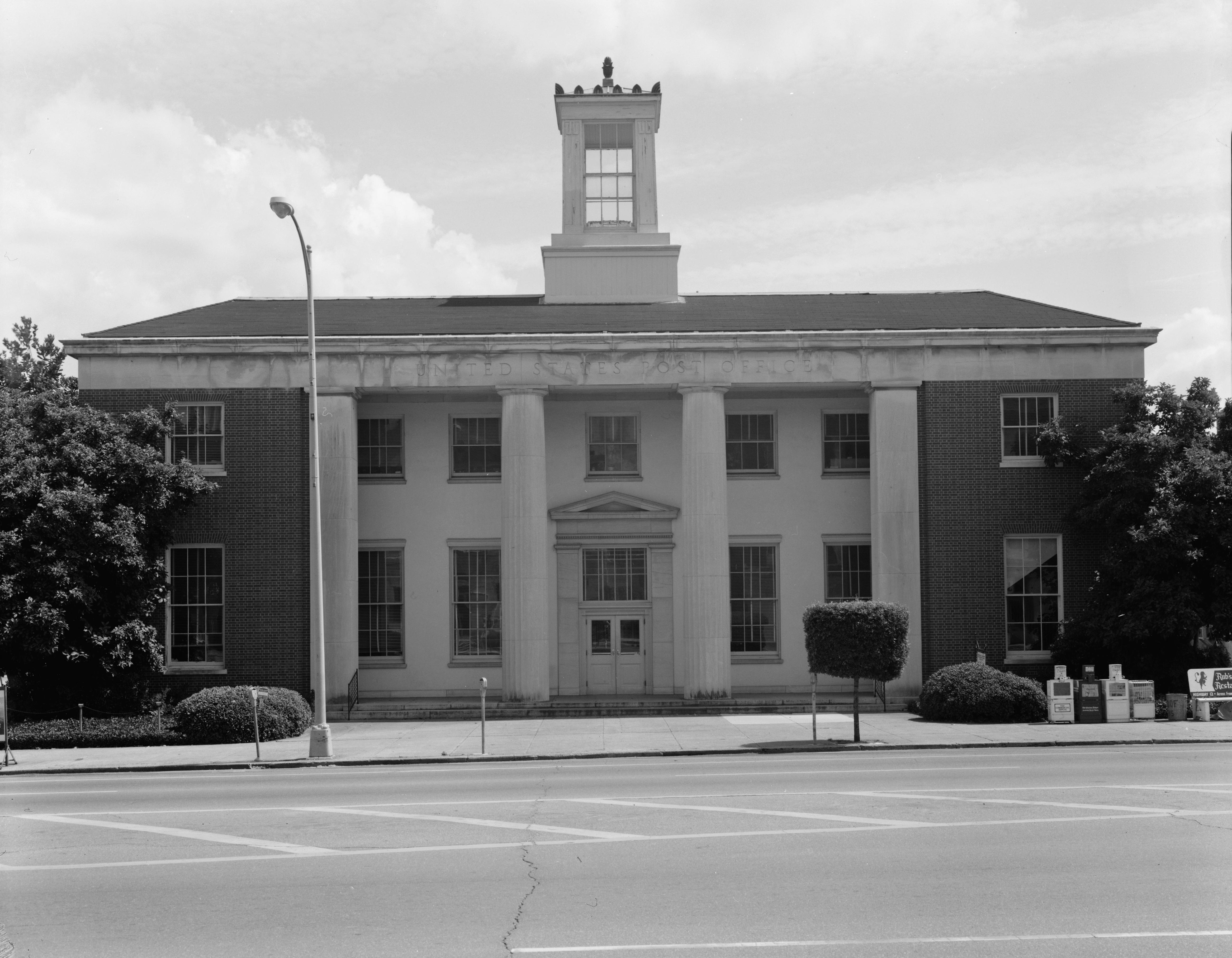 Front of the Columbus U.S. Post Office, located at 524 Main Street in Columbus, Mississippi, United States. Built in 1939, it is listed on the National Register of Historic Places.